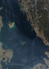 Kattegat between Denmark and Sweden.